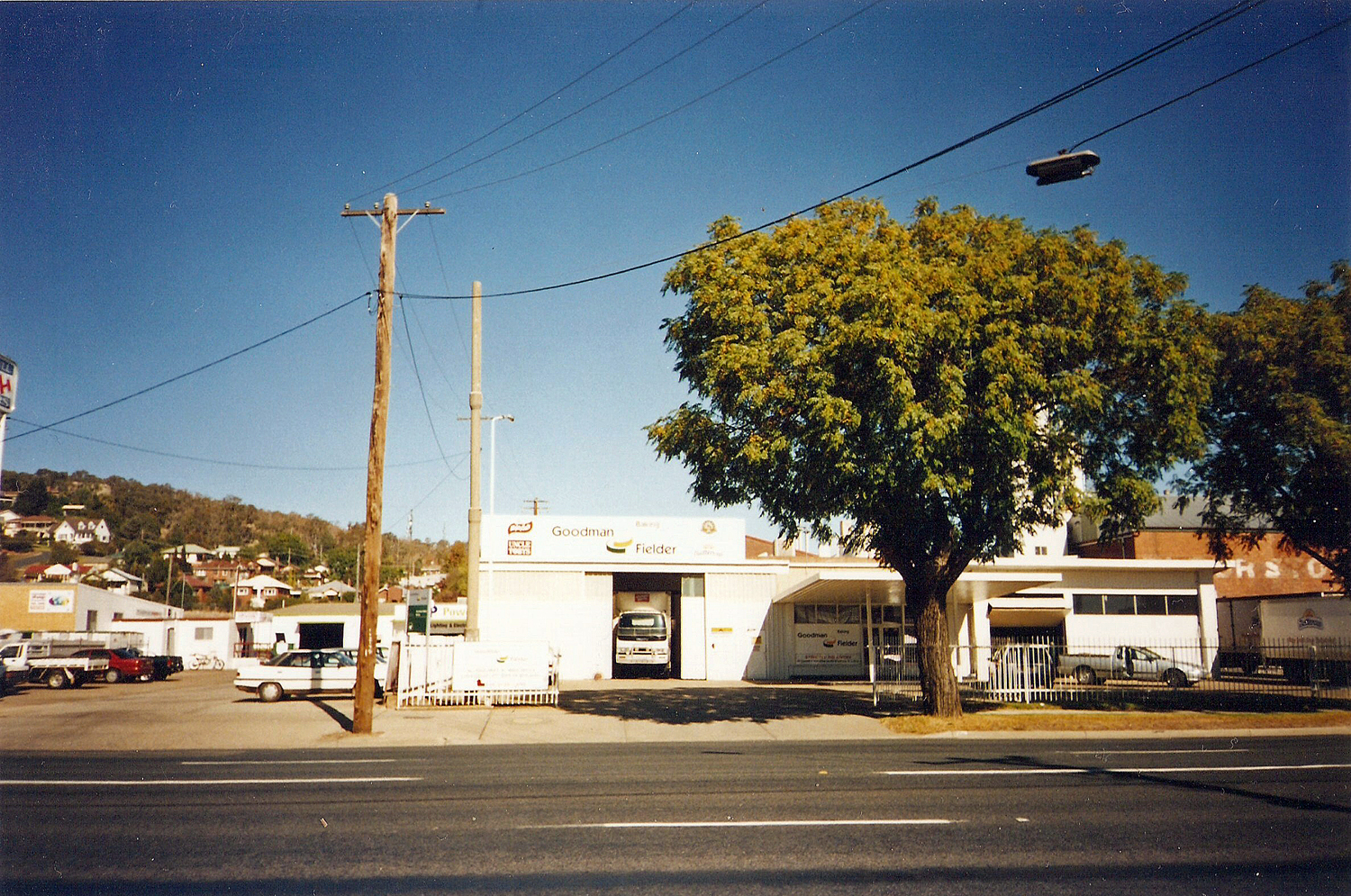 Goodman Fielder's Wagga Bakery (originally the Sunicrust Bakery) which was owned by Goodman Fielder which closed in Late May 2003. The building was demolished in 2007.